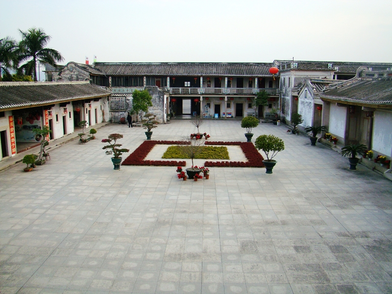 Former residence of Chen Ci-Hong